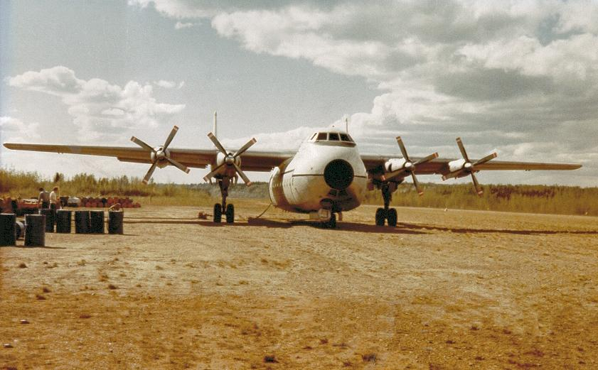 Armstrong Whitworth A.W.650 Argosy